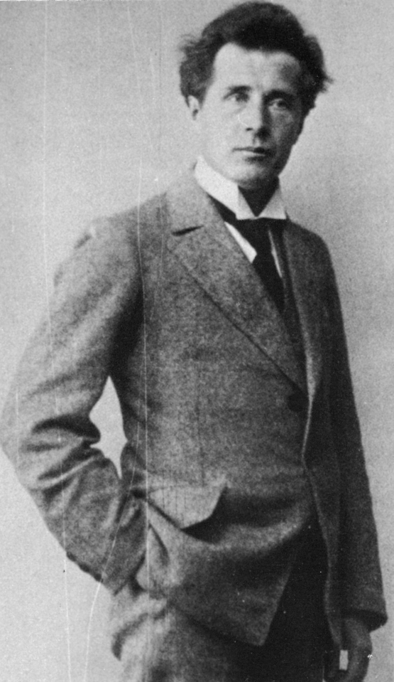 Photograph of the Finnish composer Leevi Madetoja (1887–1947).